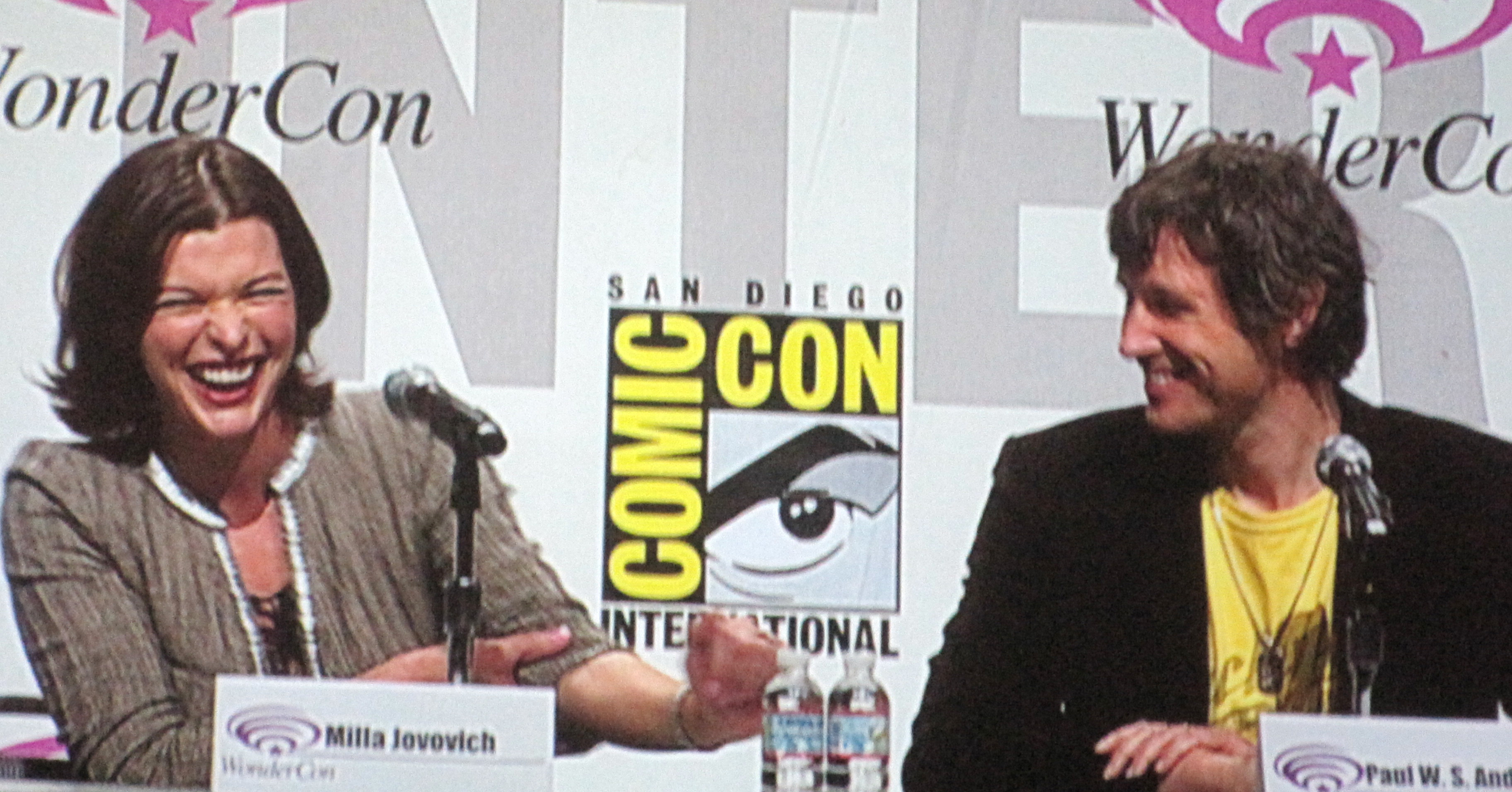 Actress Milla Jovovich and director Paul W. S. Anderson participating in a panel on Resident Evil: Afterlife at WonderCon 2010.